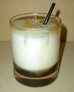 White Russian Source: Self taken